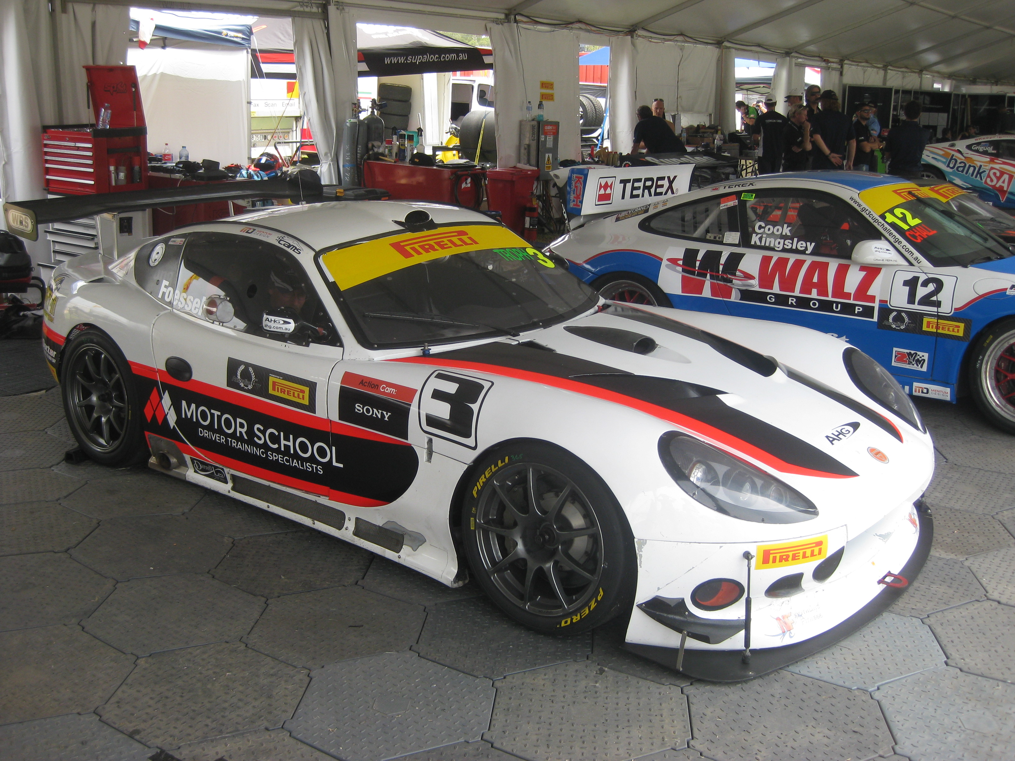 Ginetta G50Z of Ben Foessel at the opening round of the 2015 Australian GT Championship